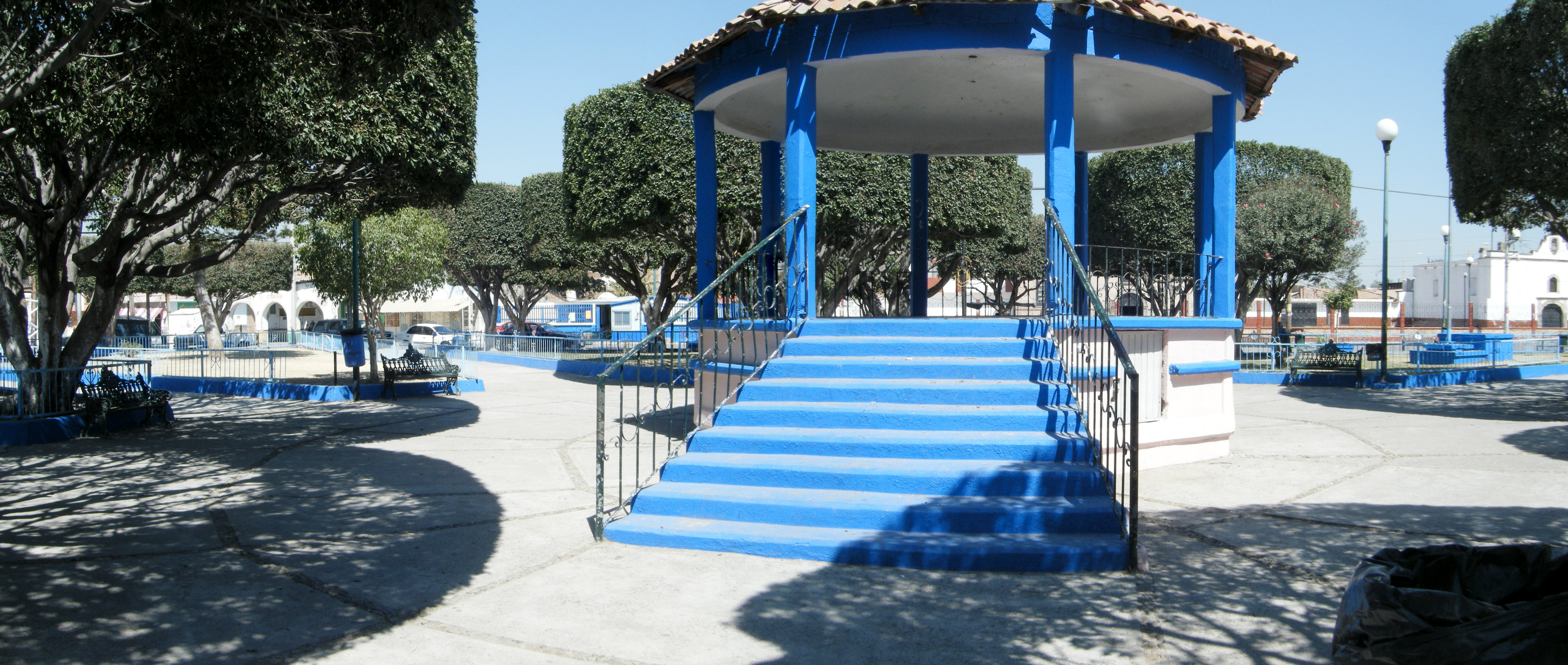 kiosco de valtierrilla